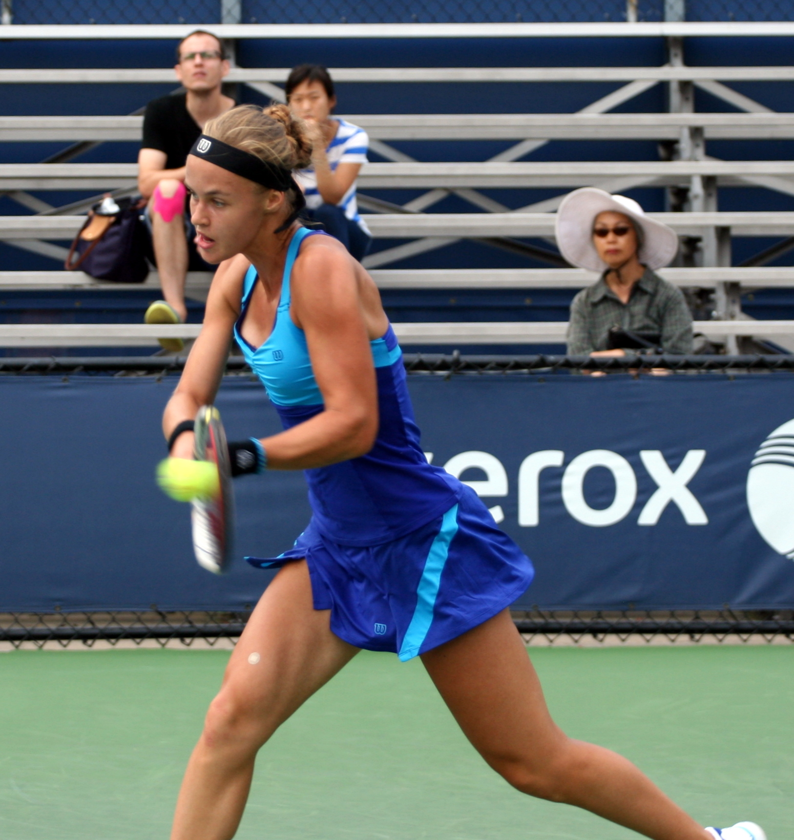 Anna Karolína Schmiedlová at the 2013 US Open